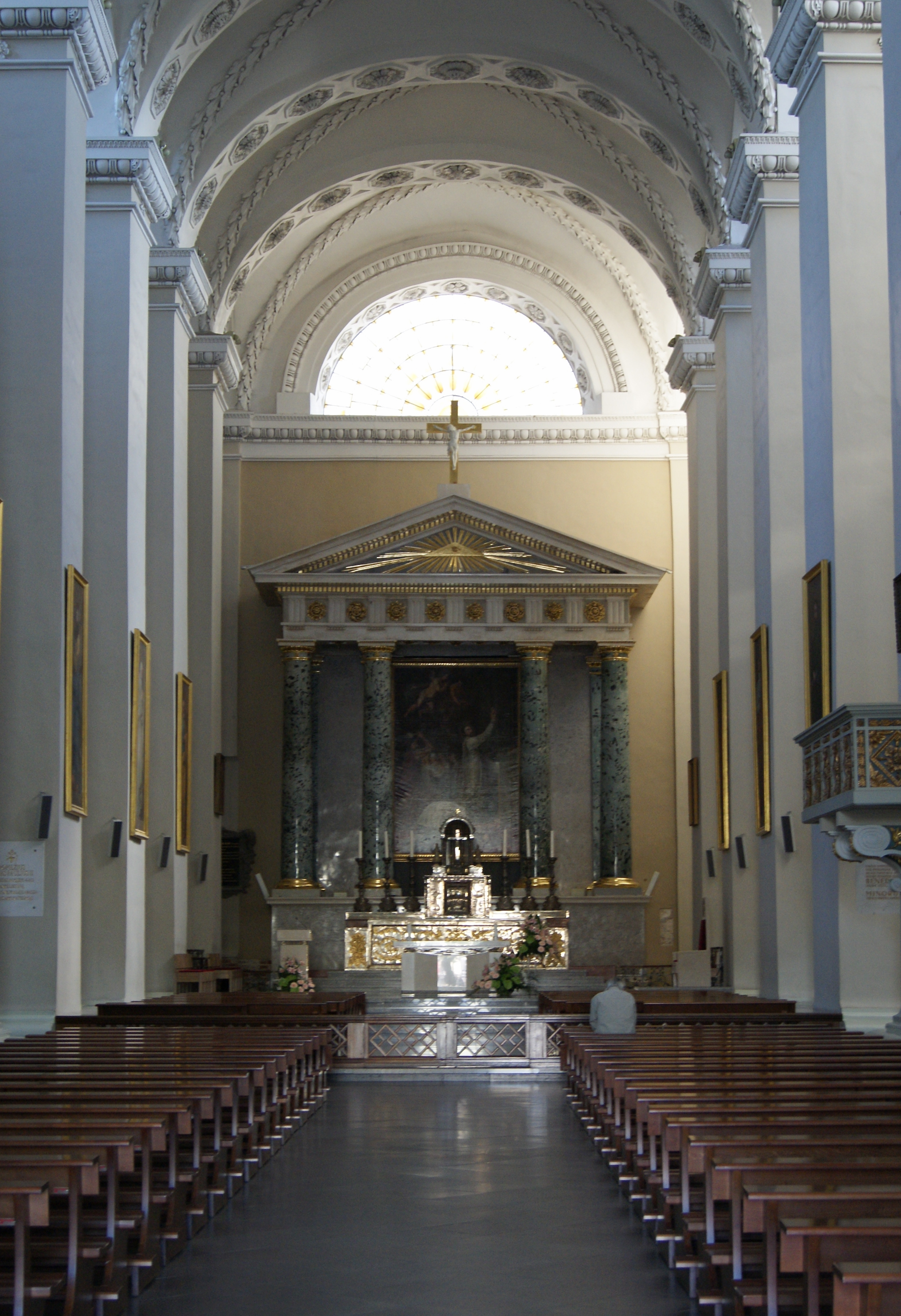 Interior of Vilnius Cathedral, Vilnius, Lithuania